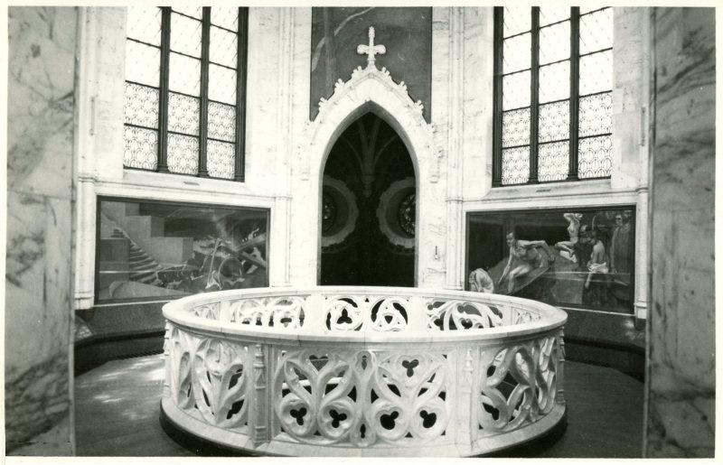 Juselius Mausoleum interior.